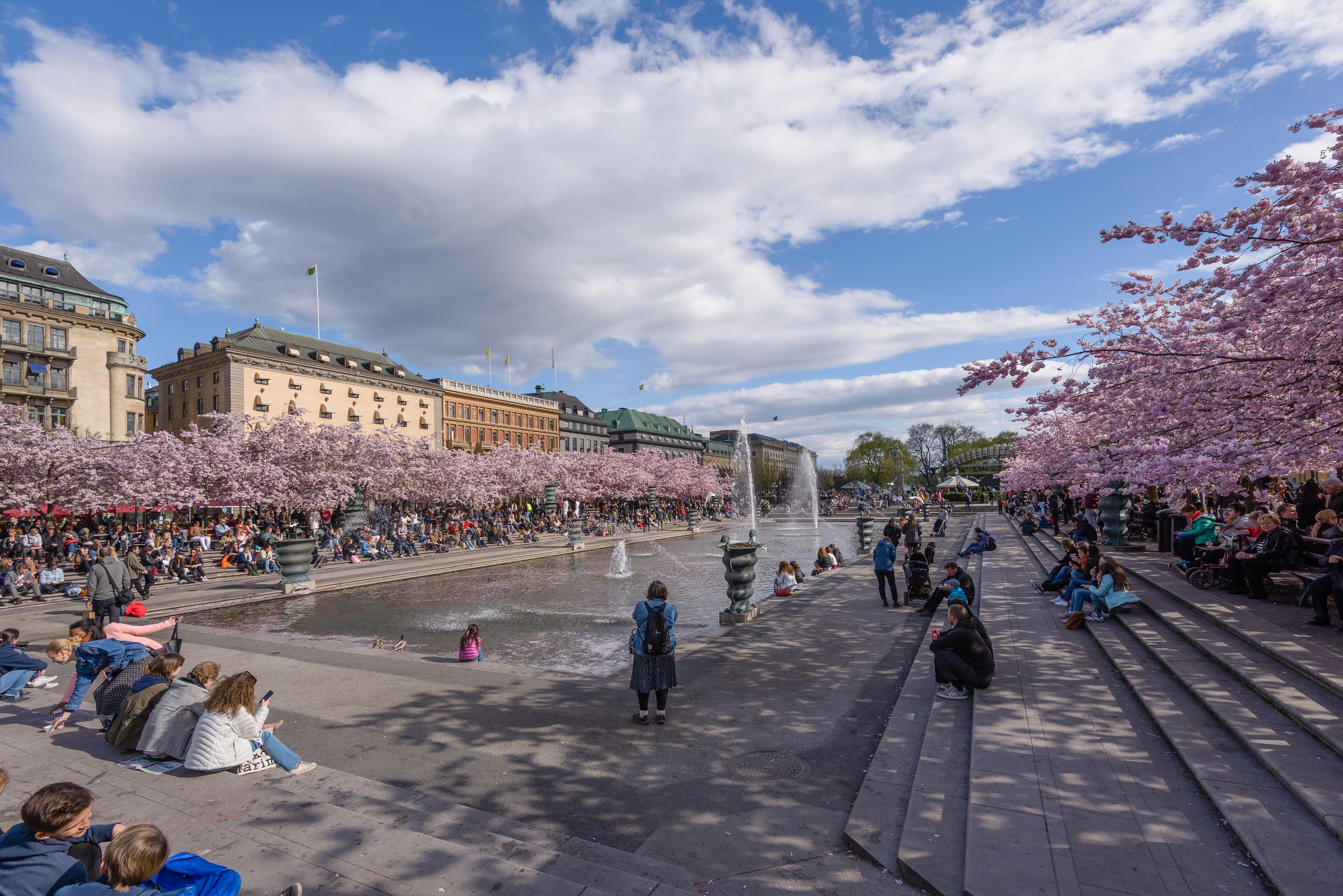 Japense cherry (prunus serrulata) in Kungsträdgården. Kungsträdgården (Swedish for "King's Garden") is a park in central Stockholm, Sweden